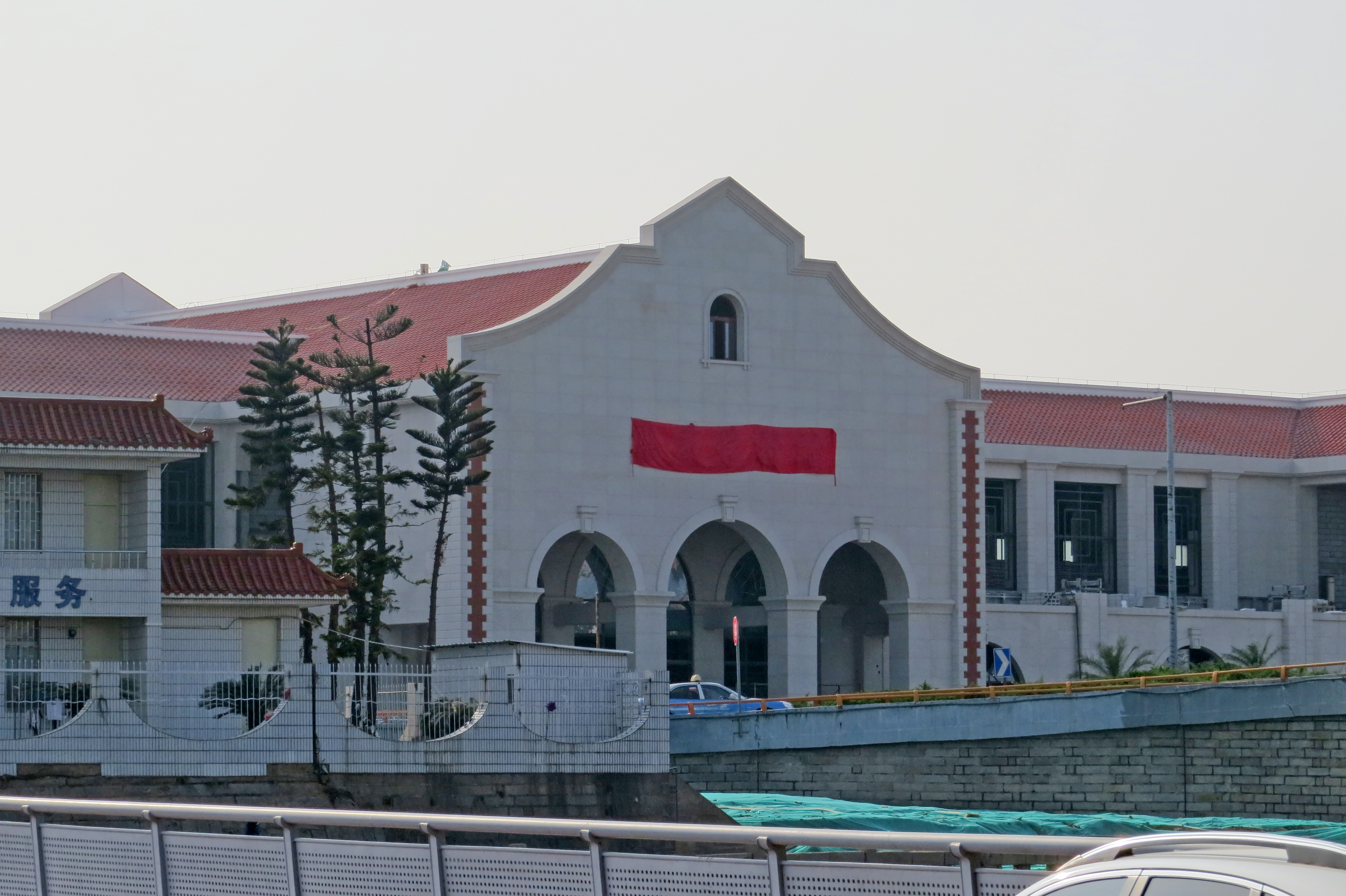 Tried to be in Kah Kee style.